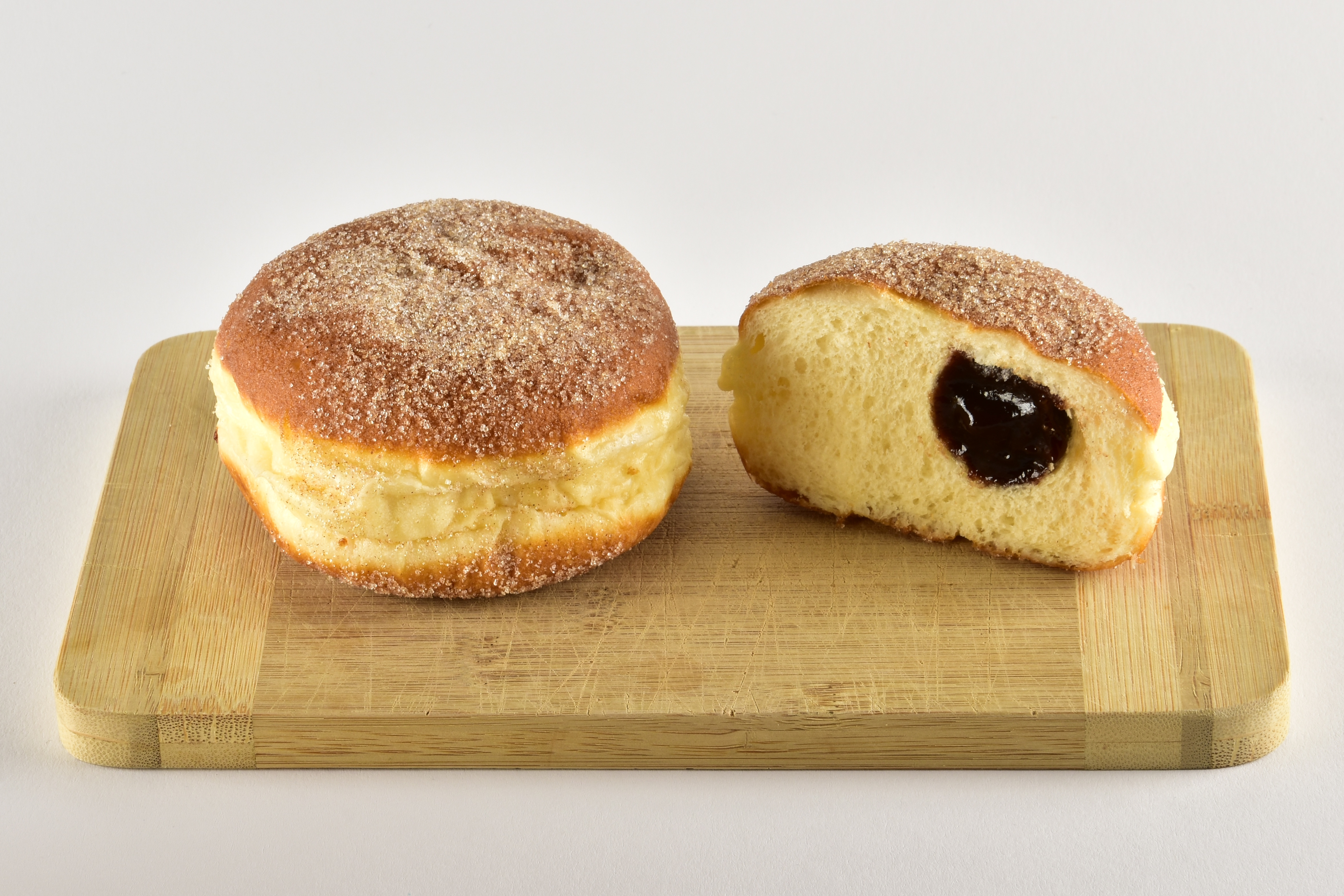 Berliner Pfannkuchen (or Berliners for short), a popular German deep fried pastry made from sweet yeast dough. These specimens are sprinkled with granulated sugar and filled with plum jam, but other toppings and fillings are common too. The Berliners in this picture were made by a Hamburg bakery.